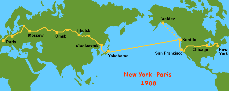 Map (rough) of The Great Race New York - Paris 1908, own work composed from various mapreferences